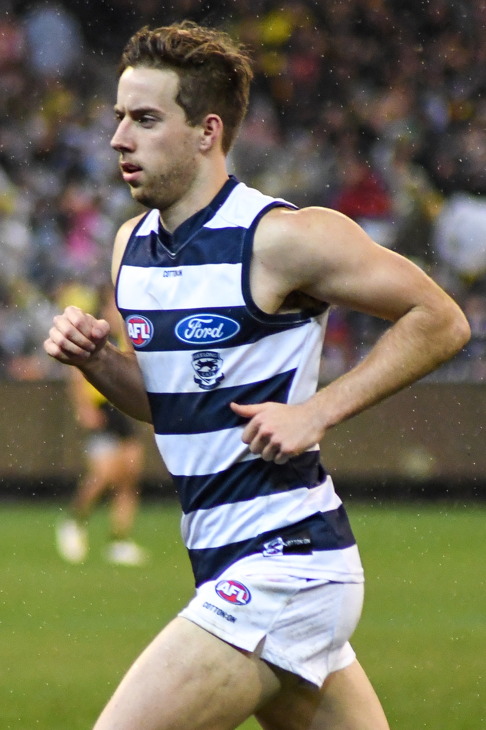 Jordan Cunico of Geelong during the 2018 AFL round 20 match between Richmond and Geelong at the Melbourne Cricket Ground on Friday, 3 August 2018 in Melbourne, Victoria.